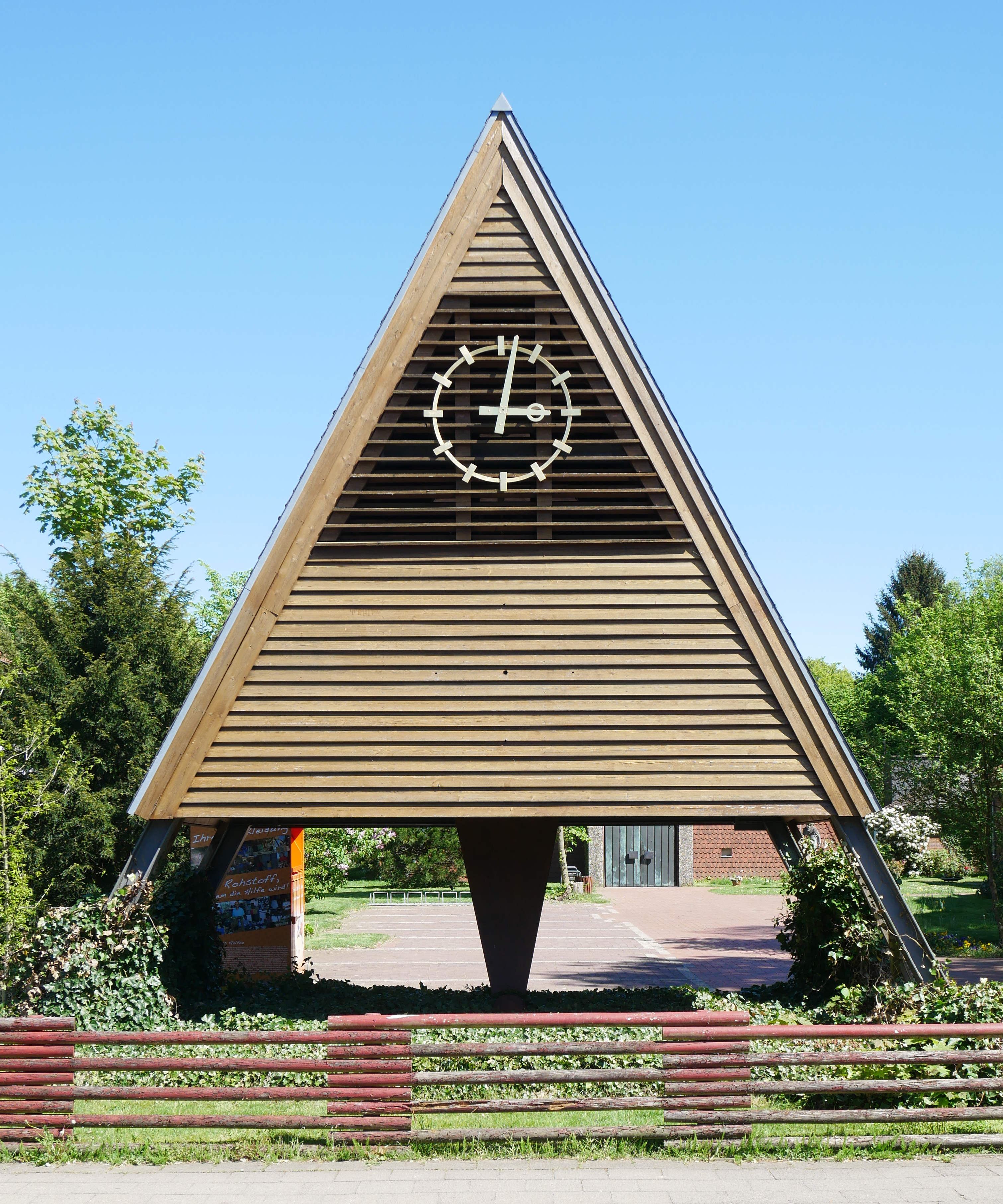 bell tower of St. Ansgar, Schneverdingen, Lower Saxony, Germany